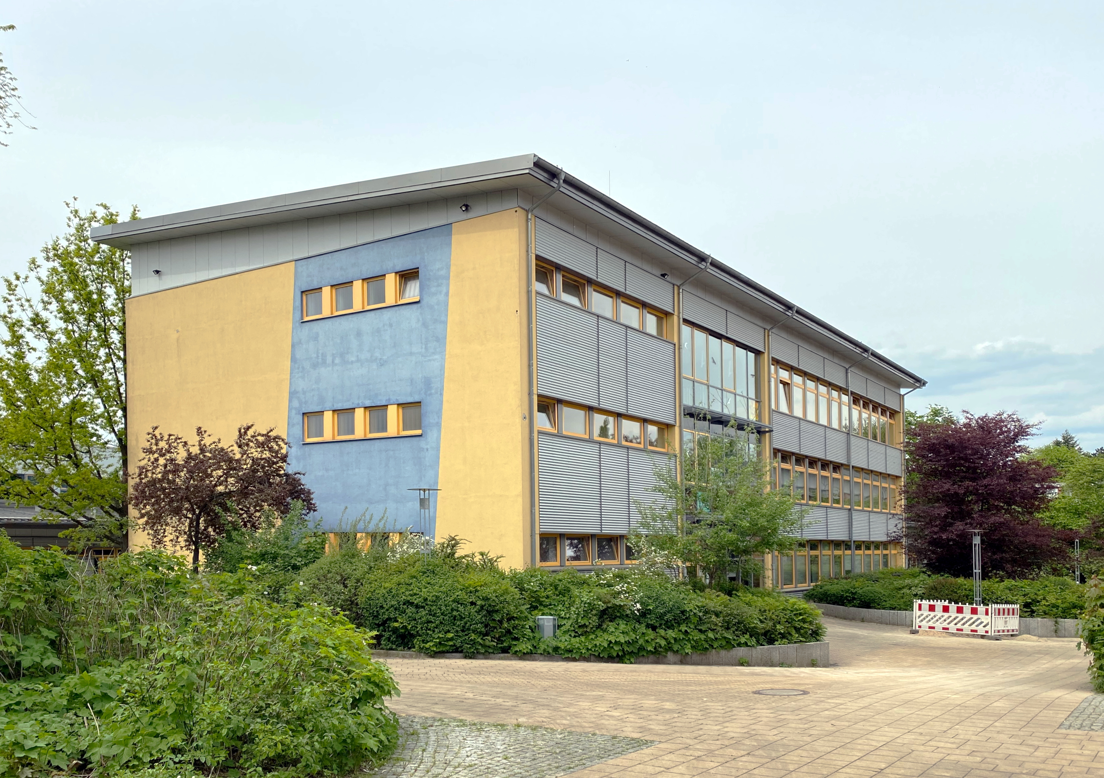 Gymnasium Meiendorf in Hamburg-Rahlstedt